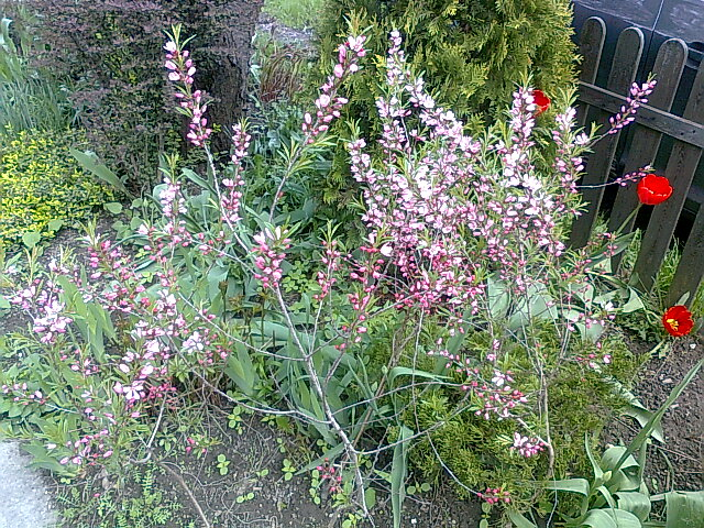 Prunus tenella, Lublin, Poland, 2013.05